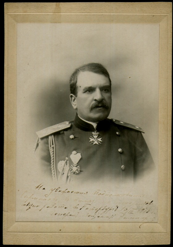 Bulgarian general comander of the Third army during the First Balkan War